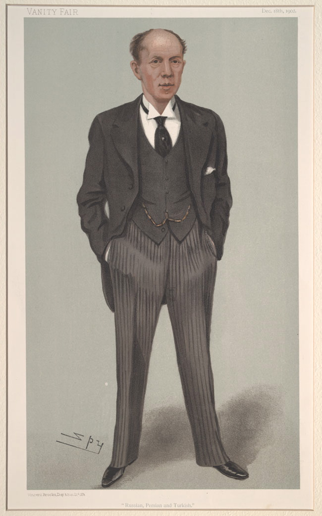 Men of the Day No. 861: Caricature of Sir Alexander Condie Stephen KCMG MCVO CB. Caption read "Russian, Persian and Turkish".